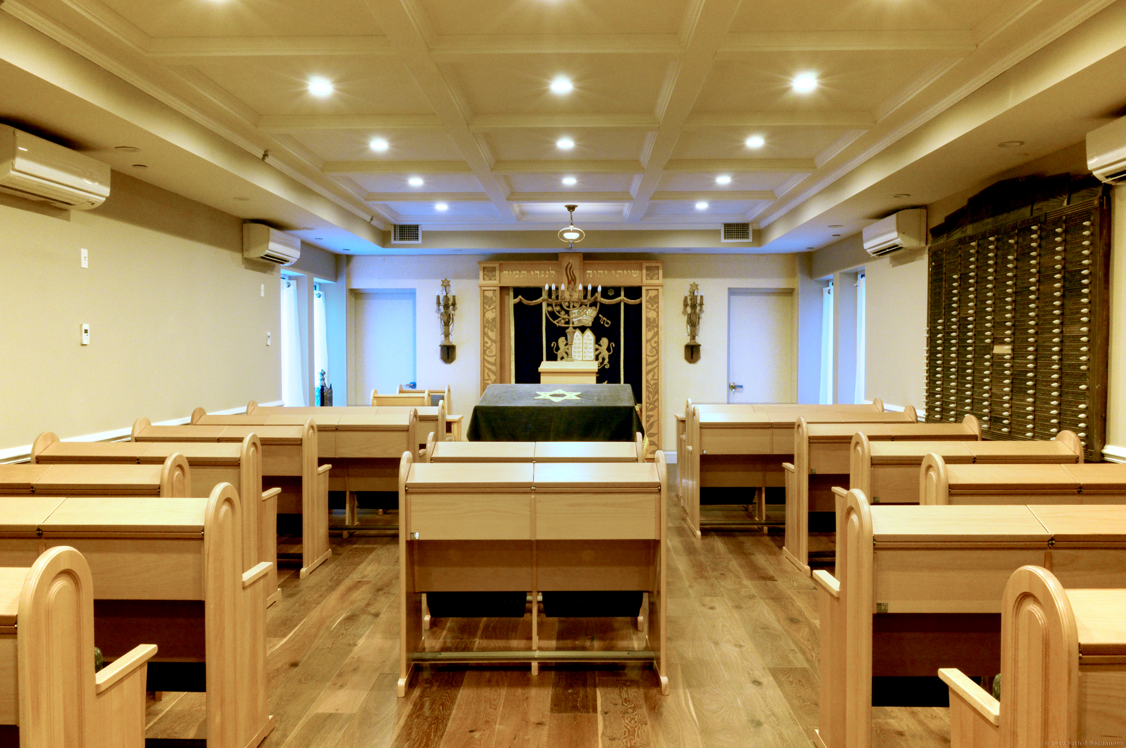 The newly restored sanctuary of the historic Adas Yisroel Anshe Mezritch Synagogue at 415 E. 6th St. NY, NY